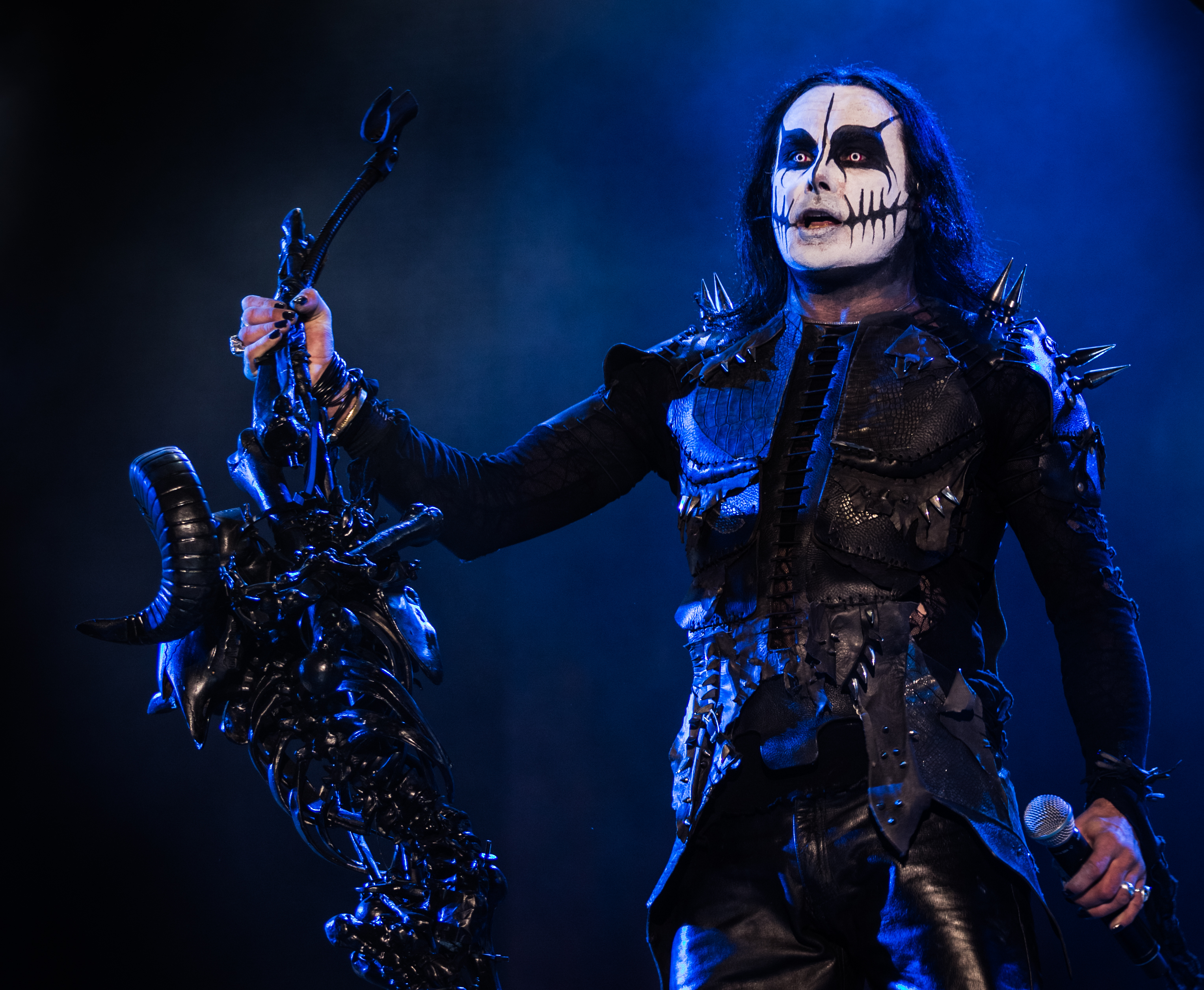 Cradle of Filth - Wacken Open Air 2015